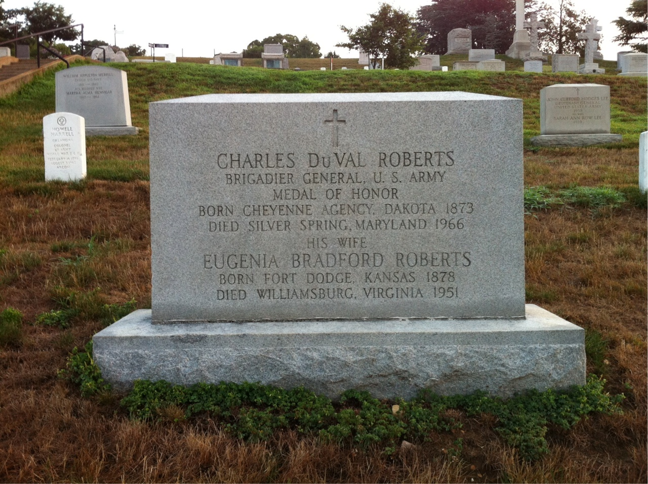 Grave of Charles DuVal Roberts at Arlington National Cemetery